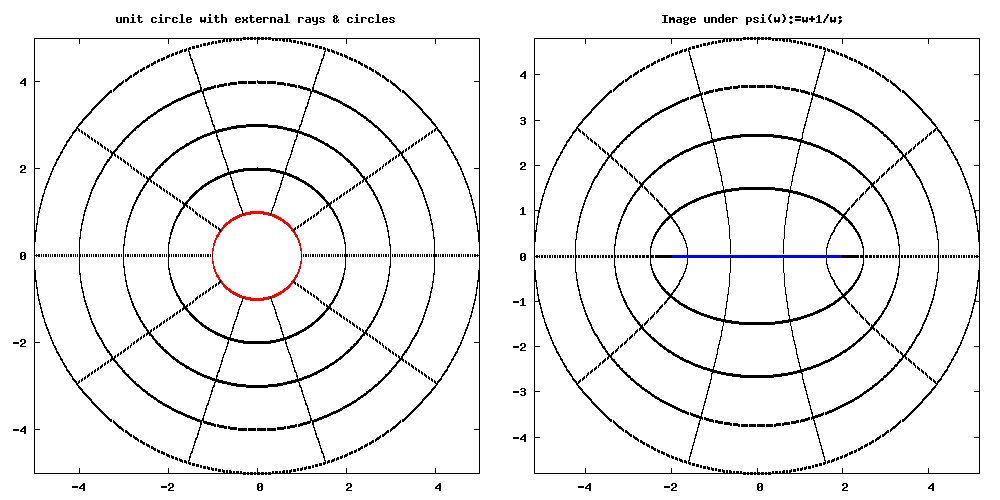 polar coordinate system and mapping from the complement (exterior) of the closed unit disk to the complement of the filled Julia set for c=-2